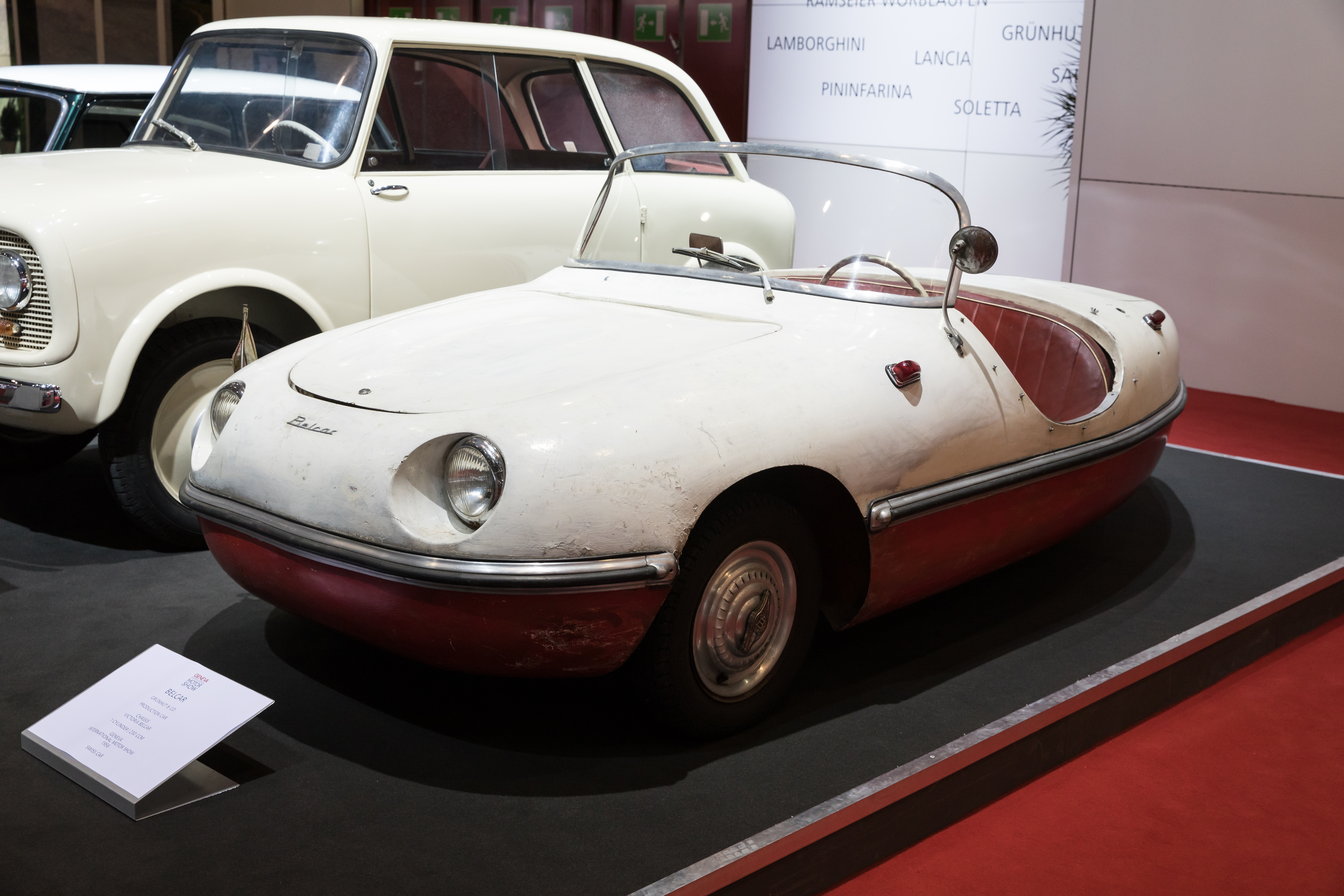 Geneva International Motor Show 2018